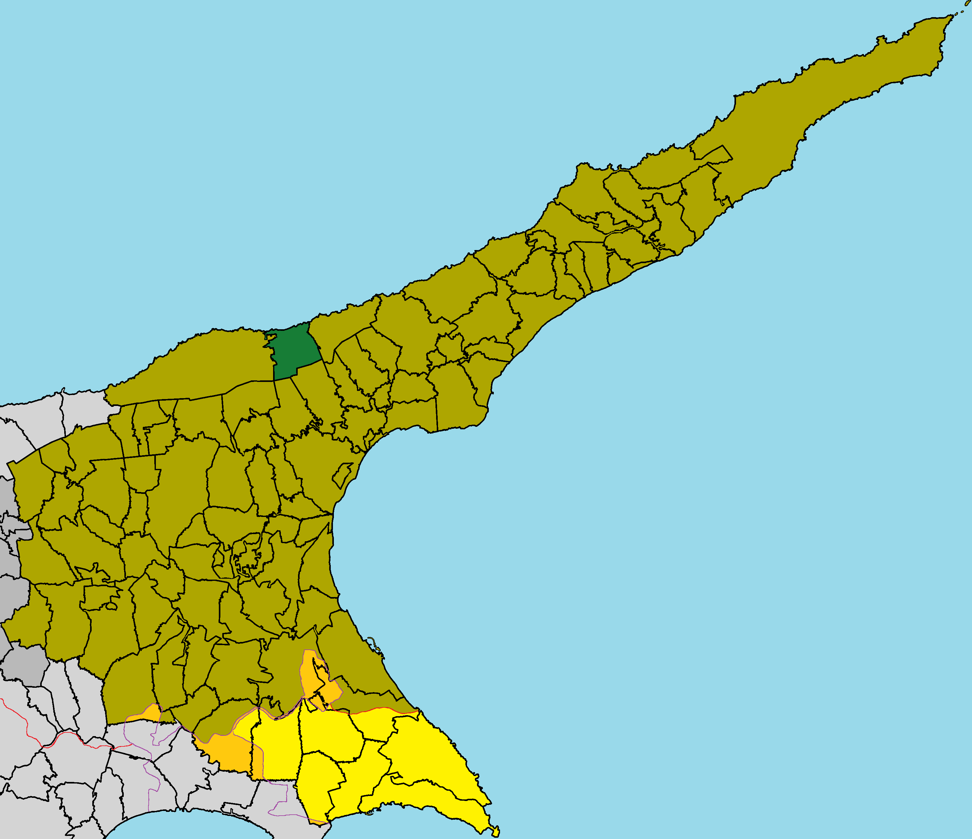 Flamoudi in Famagusta District (de jure).